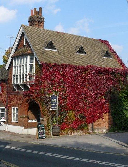 House on Portsmouth Road, Artington in Guildford. With Autumn just around the corner, the colours of the creeper made this house appear particularly attractive.